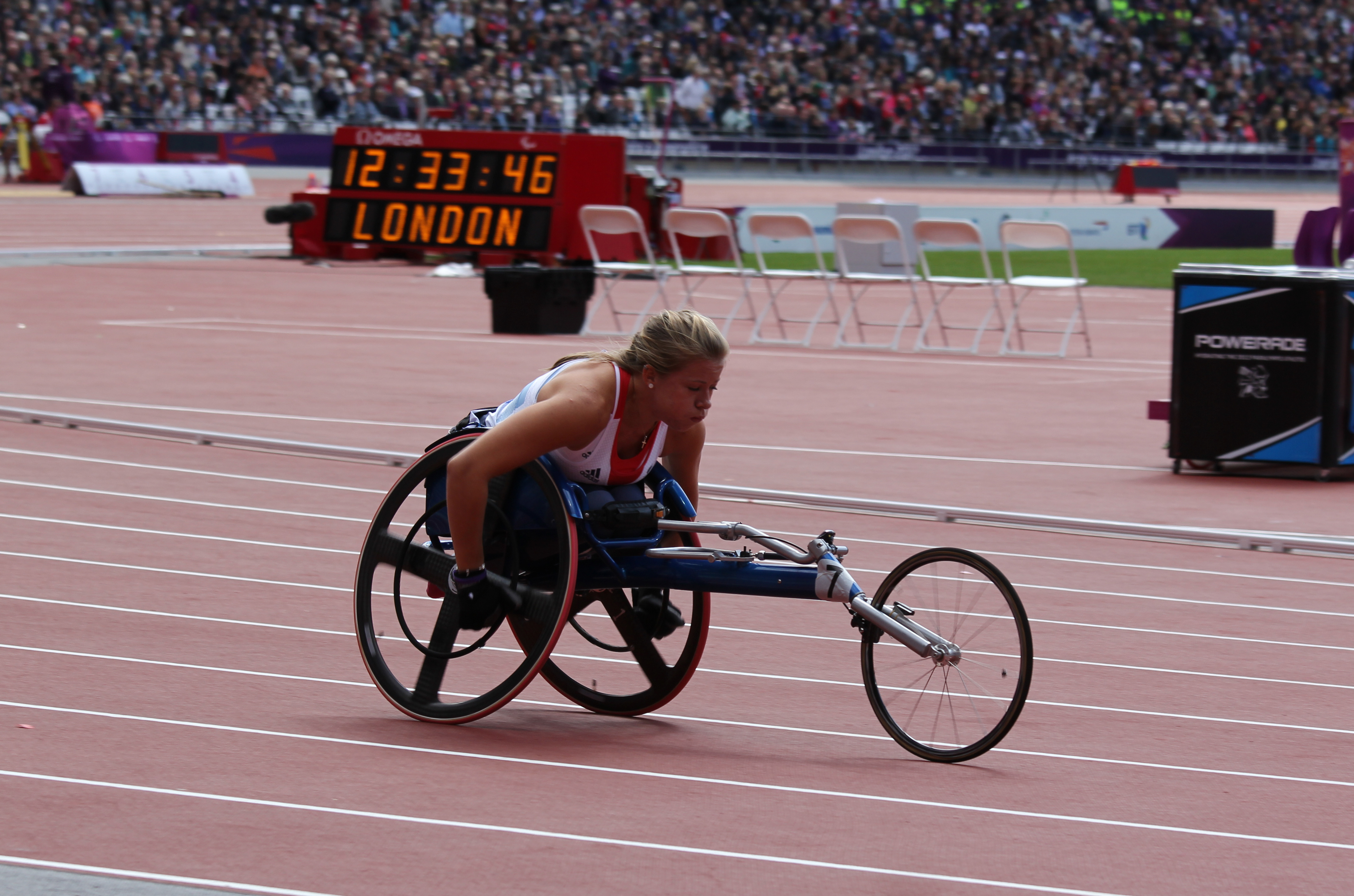 Hannah Cockroft wins T34 100m qualifying heat in a time of 18.24 seconds